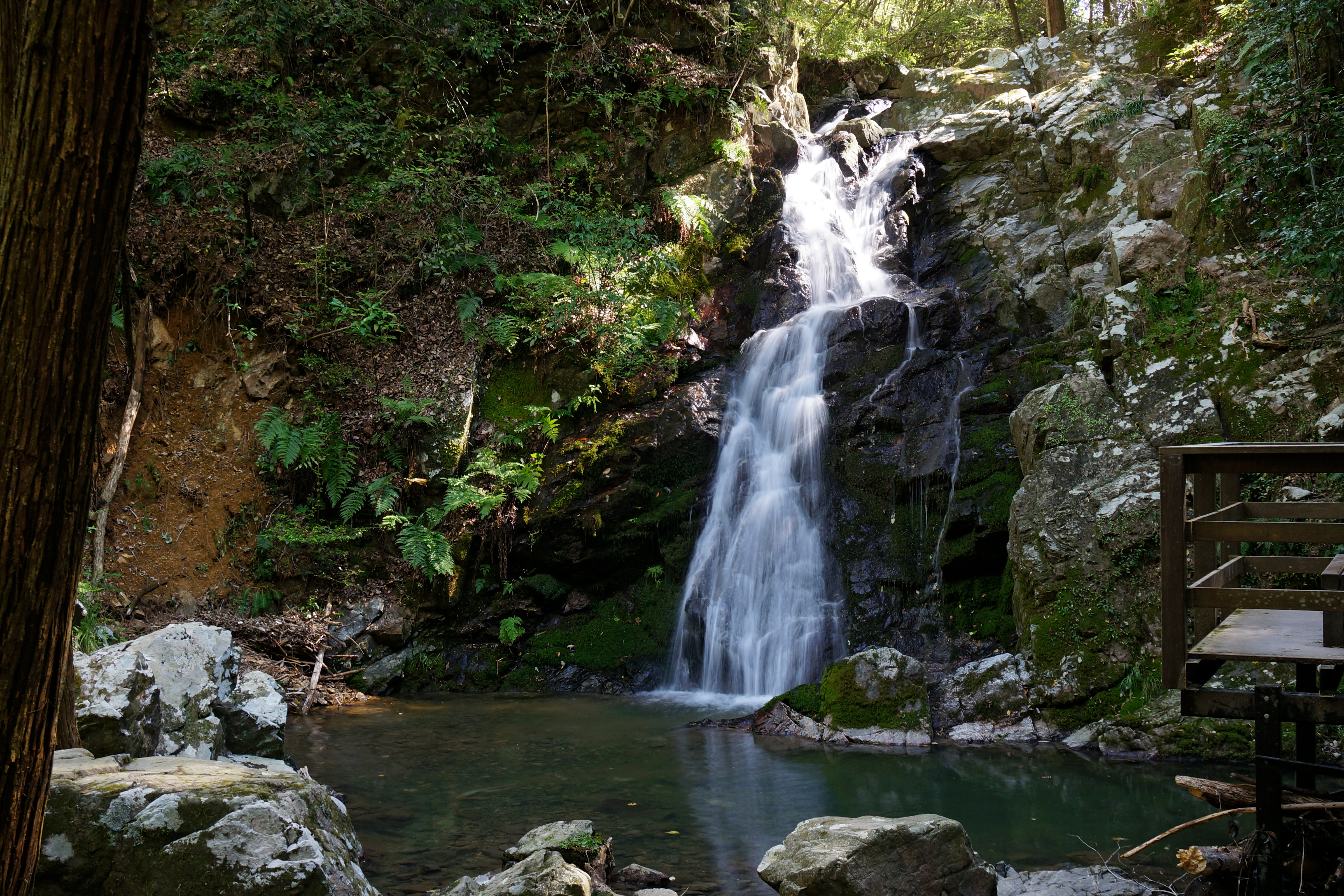 Settsu-kyo in Takatsuki, Osaka prefecture, Japan.